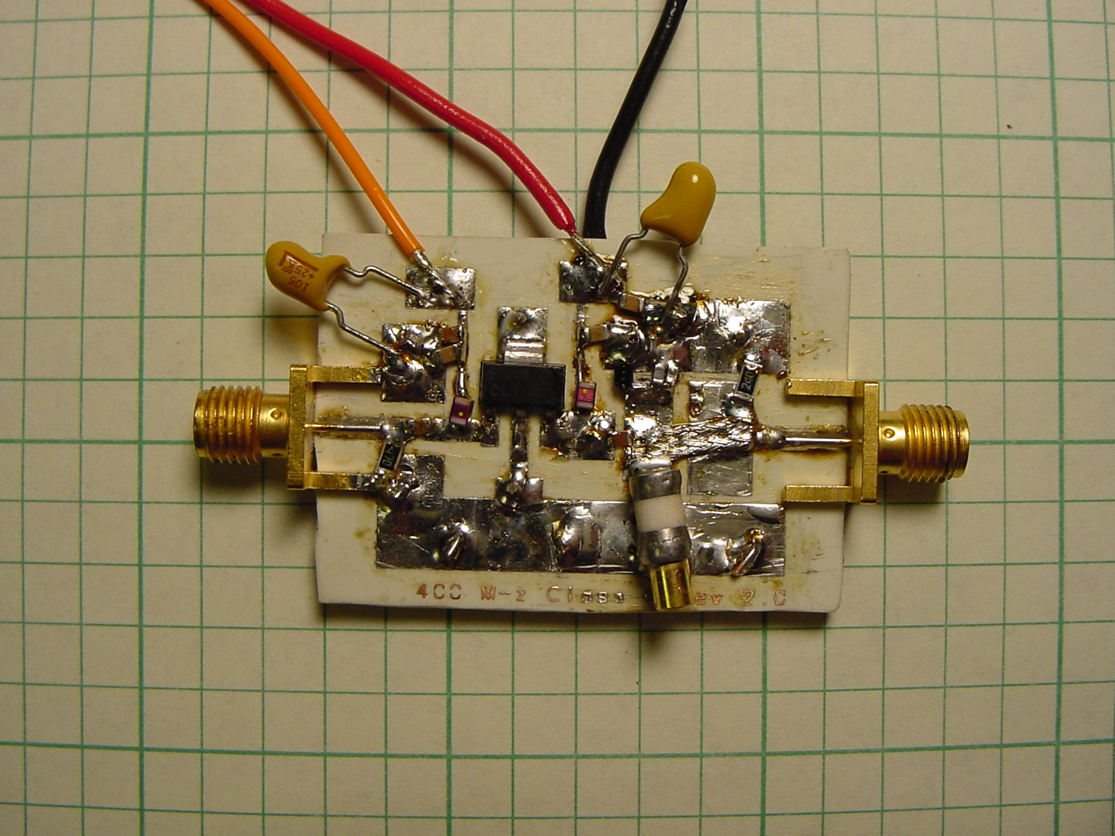 This is a class C RF power amplifier I constructed in 2002 as part of my masters project. I look at this now and wonder how it ever worked. Note use of solder braid as a trace on the right hand side. The huge leaded capacitors scare me a little bit too now. Yikes.